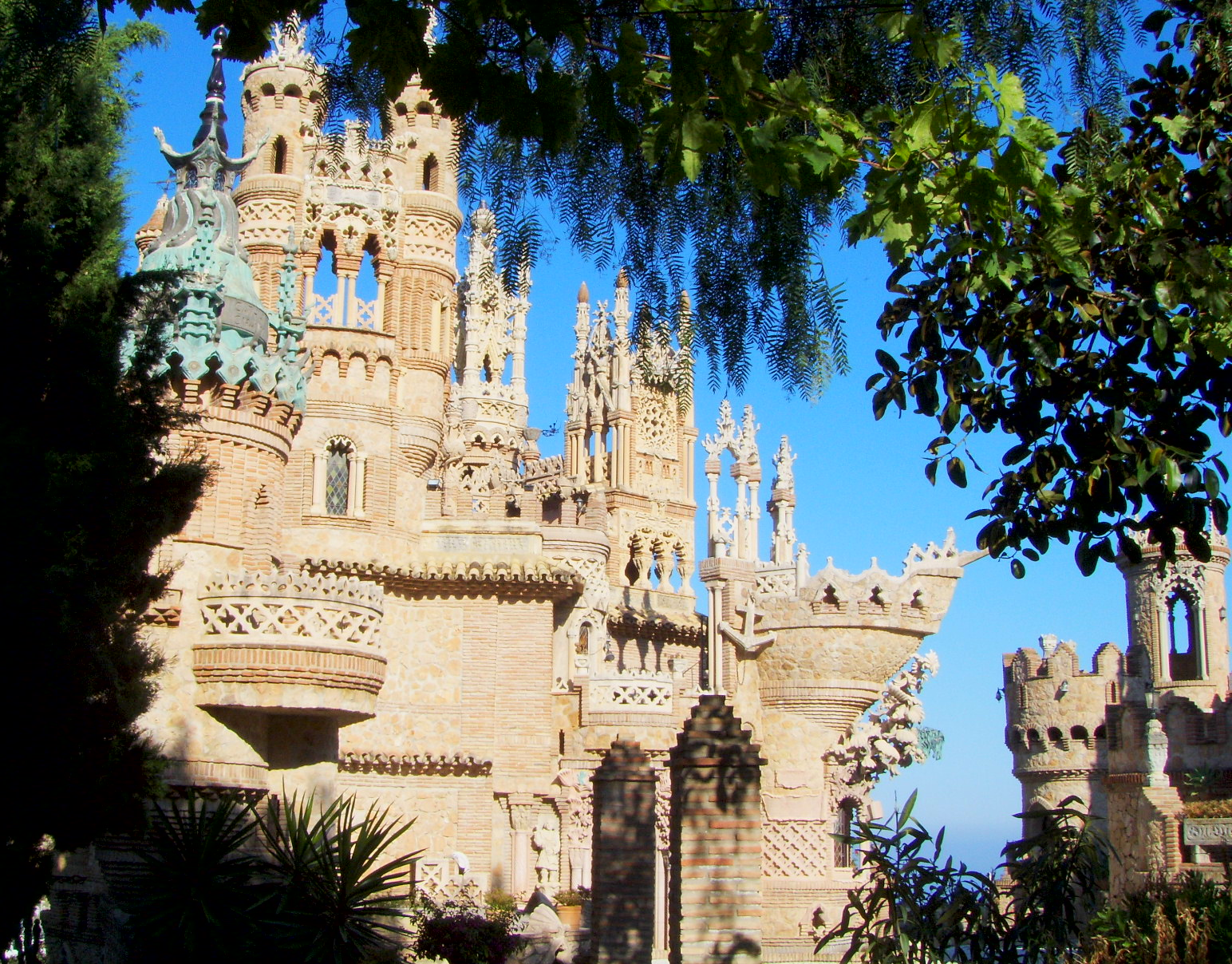 Castillo de Colomares, Benalmádena Pueblo, Benalmádena, Spain